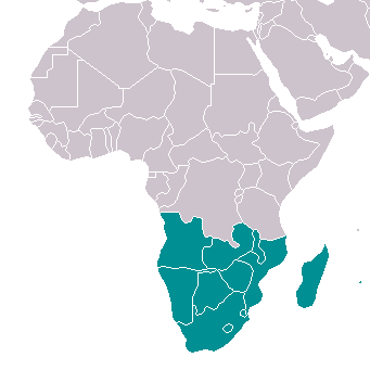 Map of Africa, inclusive Southern region. See: Maps of Africa. Mod of Image:BlankMap-Africa.png. See also Image:Africa-countries-southern.png